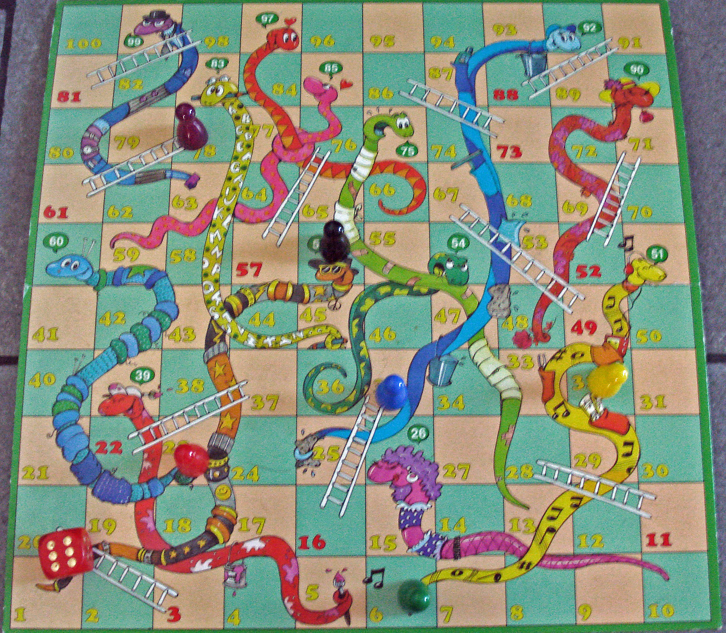 Snakes and ladders game